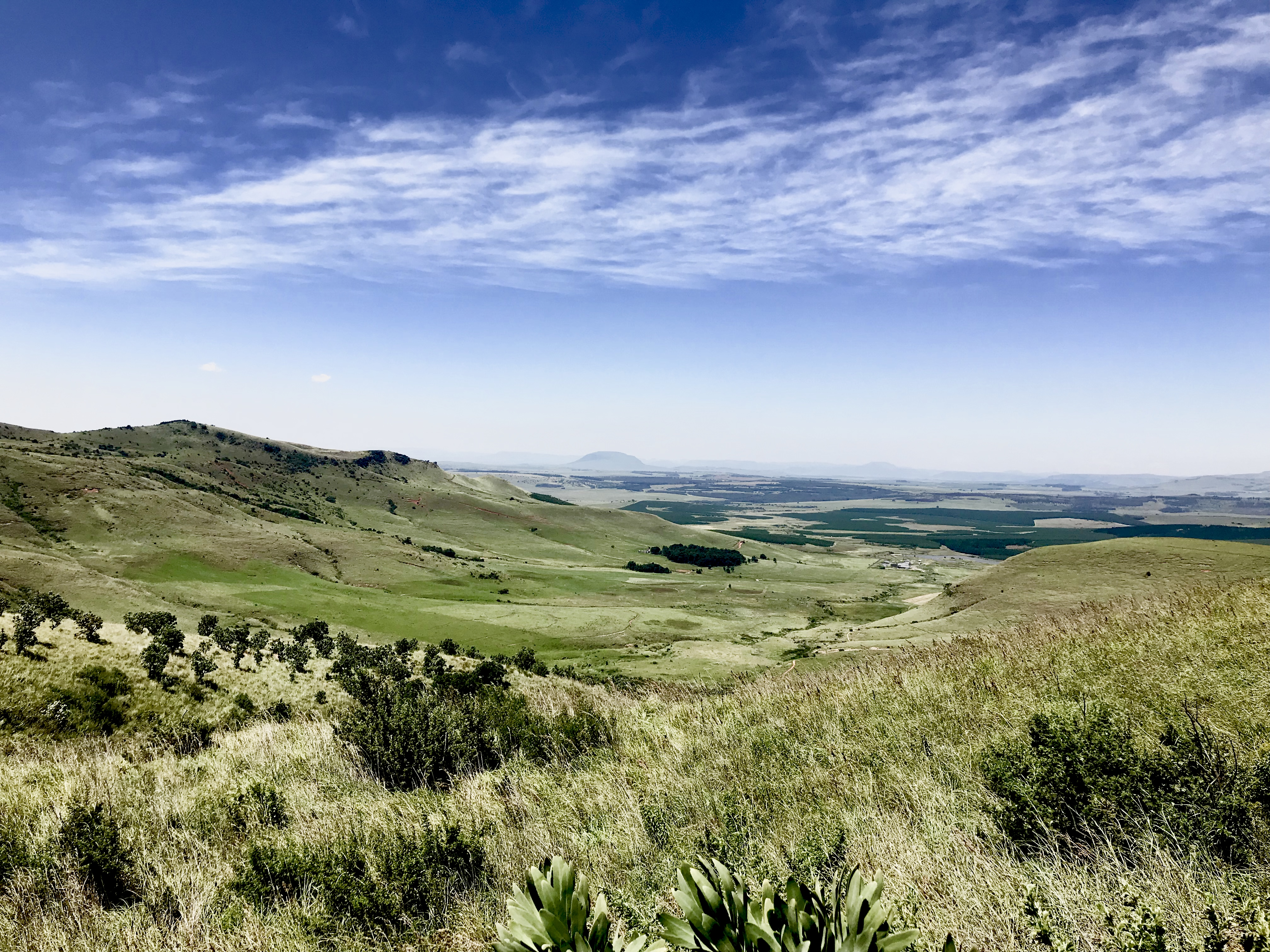 This is an image with the theme "Play" from: South Africa